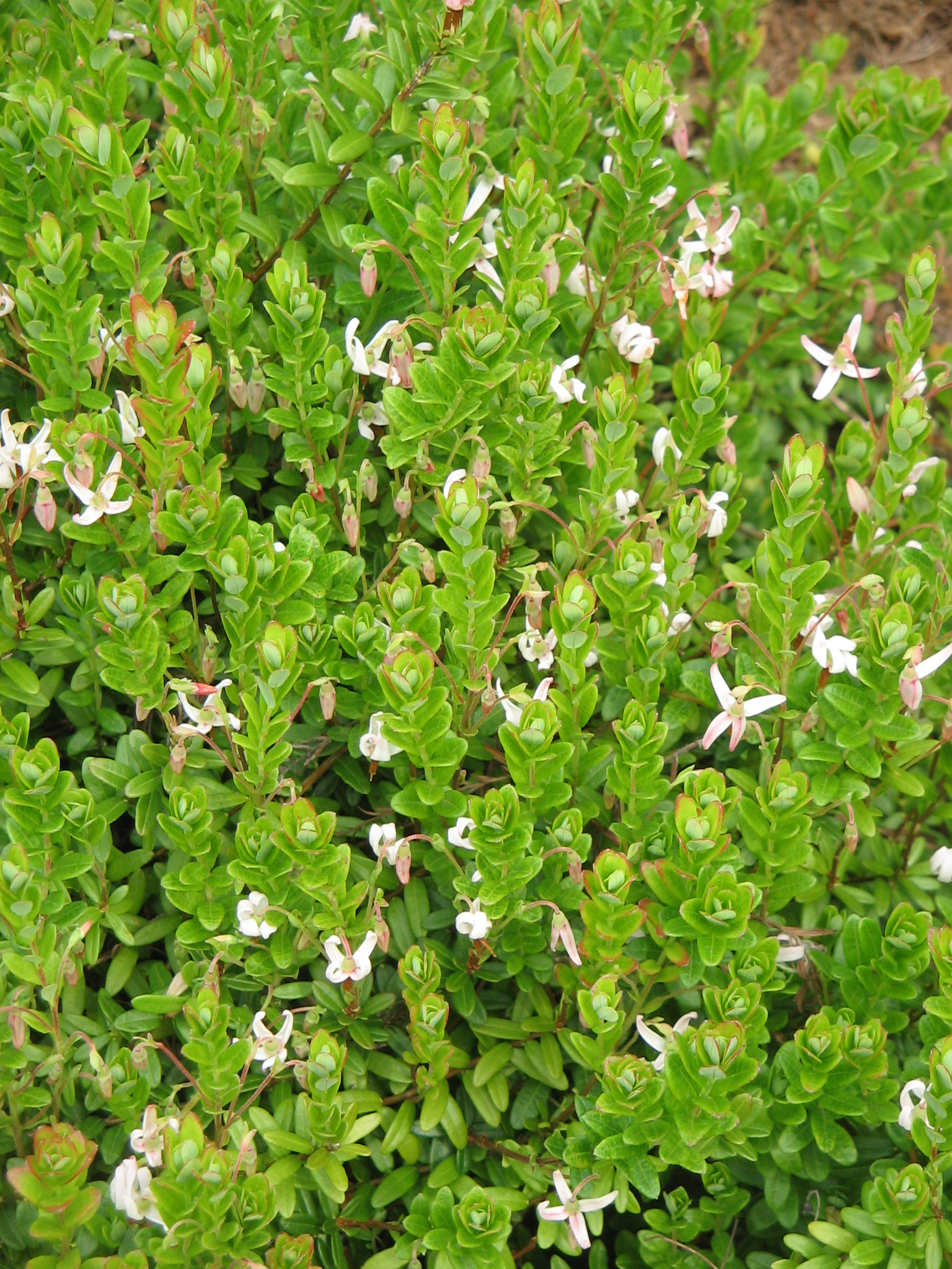 Vaccinium macrocarpon